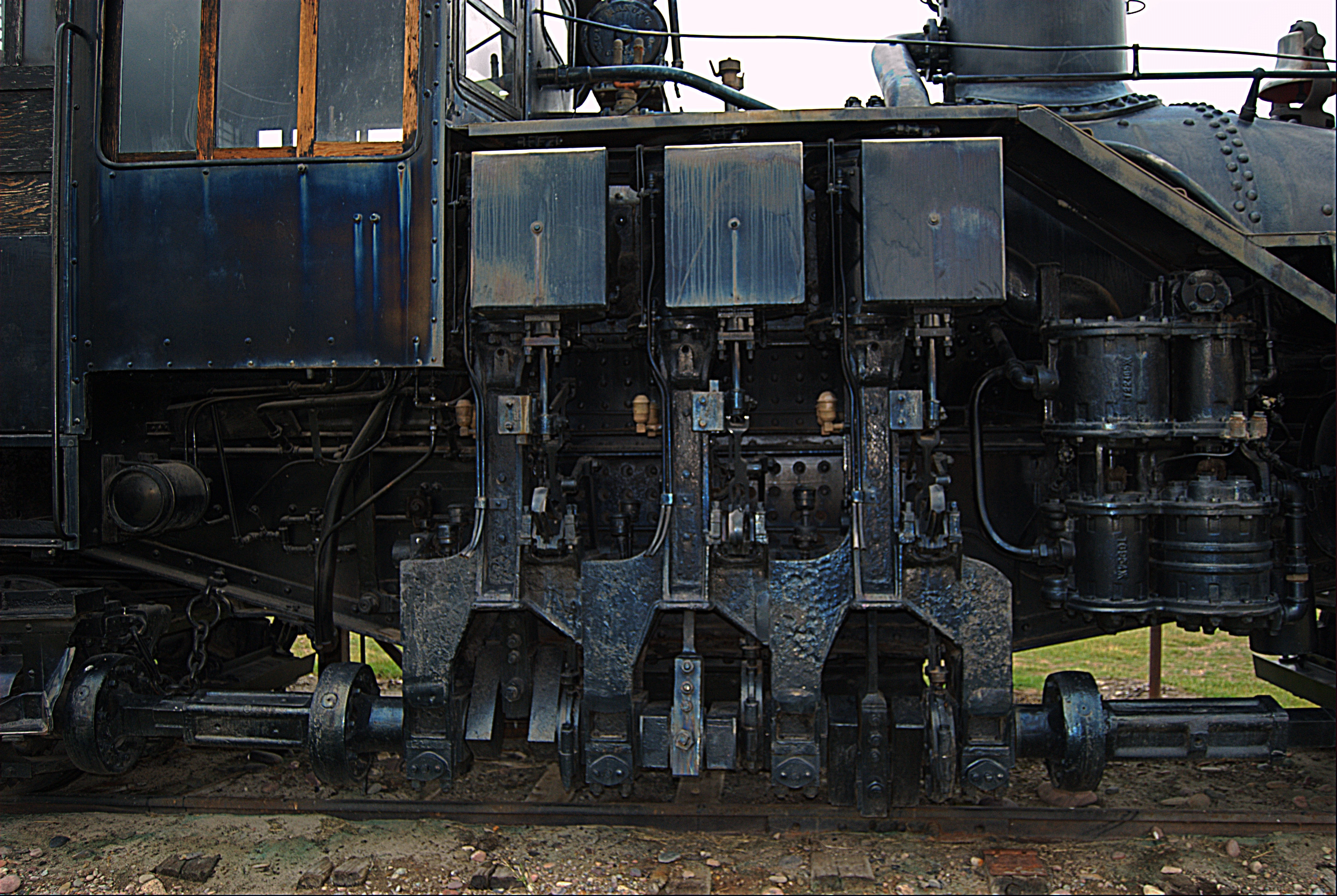 Willamette locomotive, the three cylinders on the side. Fort Missoula Museum